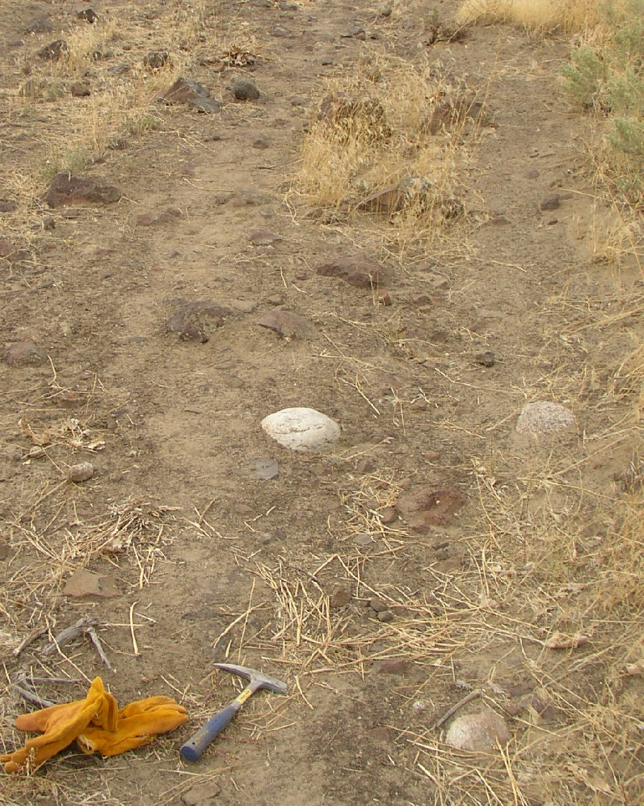 Glacial erratics The maximum elevation of the flood, as established by other indications, is confirmed by glacial erratics, which were stranded on the slopes of the Horse Heaven Hills and other elevated regions in the mid-Columbia at elevations of up to 1200 feet above sea level.[1] There were several long ridges (Saddle Mountains, Frenchman Hills, and Rattlesnake Mountain) that were above flood level. Peaks like the Badger, Candy, and Red Mountains were islands.[2][3][4] At this level, much of the Columbia Basin would have been submerged. This is a sample of erratics on Red Mountain. References ↑ ↑ The Friends of Badger Mountain (a nonprofit organization dedicated to preservation of and access to one of the regions mountains) overview ↑ The Friends of Badger Mountain have mapped the erratics found and posted them at this link. ↑ Northwest Science & Technology, Spring 2004 Issue